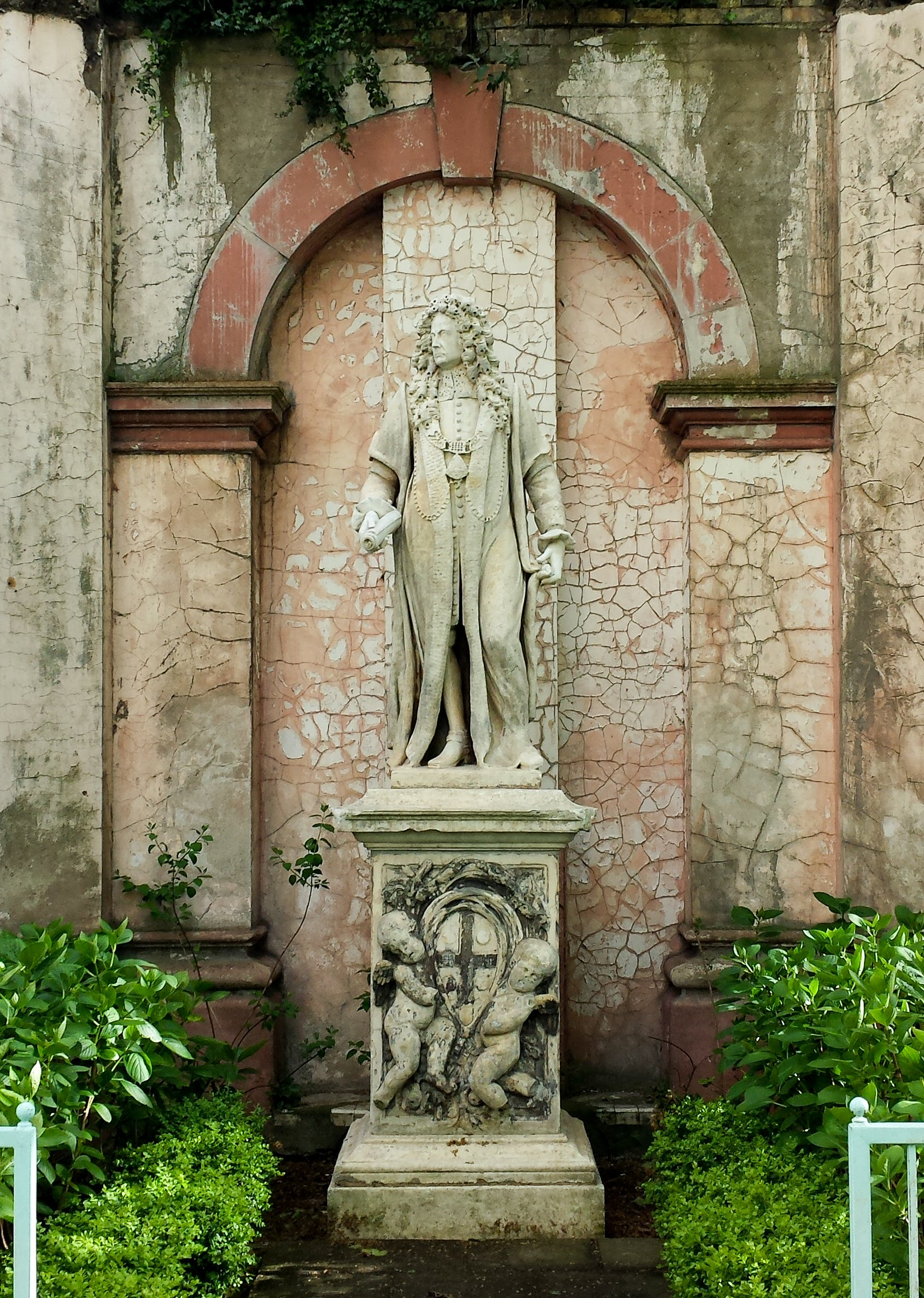 Statue of Sir Robert Clayton within the precincts of St. Thomas' Hospital, London. Clayton was the Lord Mayor of London from 1679 to 1680 and was President and benefactor of St. Thomas' Hospital. The statue is classed as a Grade I listed building in England.